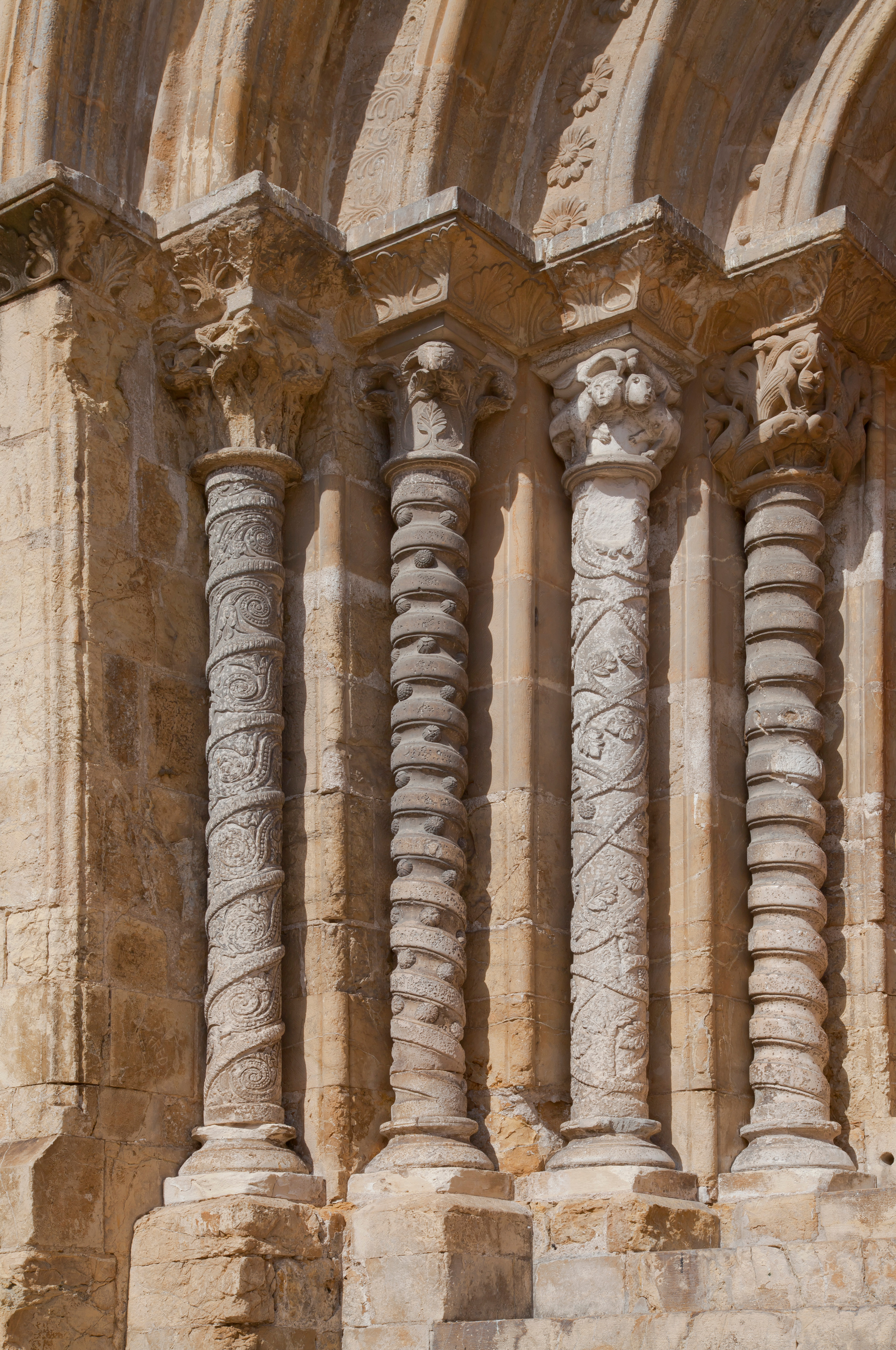 Church of Santiago, Coimbra, Portugal